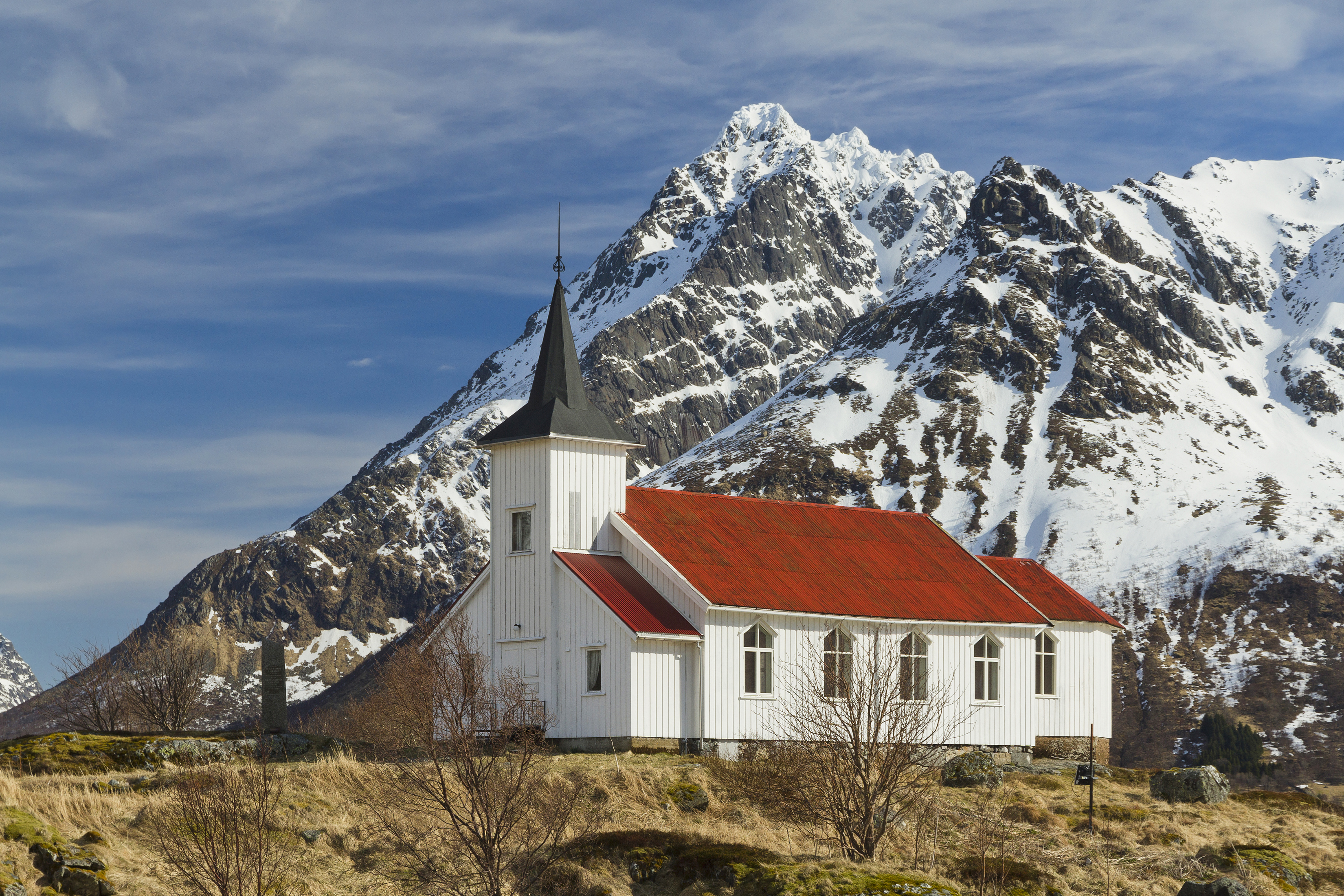 Sildpollnes Church in morning on Sildpollnes peninsula in Austvågøya island, Lofoten, Norway in 2015 April. The mountain in the background is Higravstindan, the highest on the island.